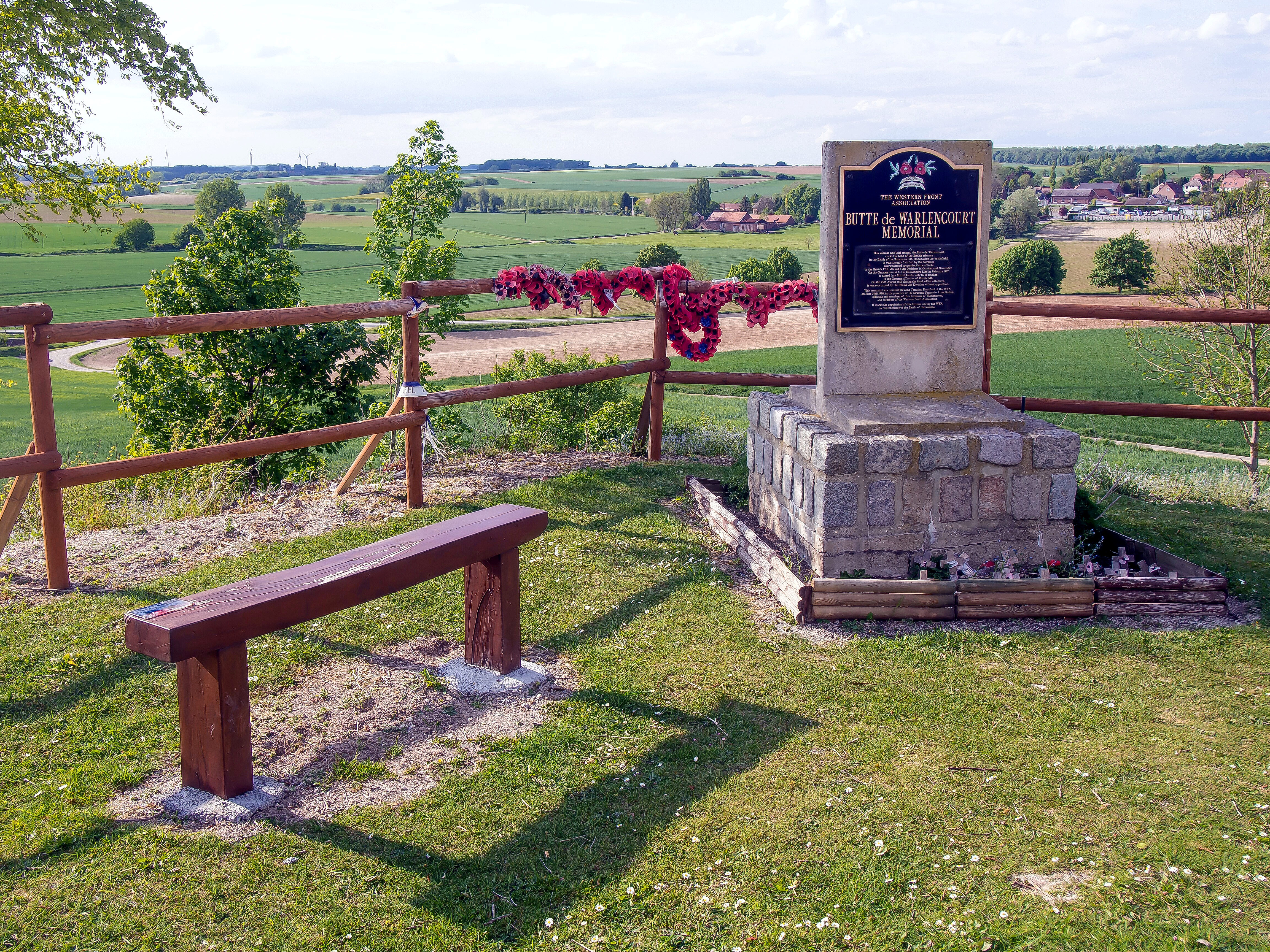 Butte de Warlencourt, Memorial